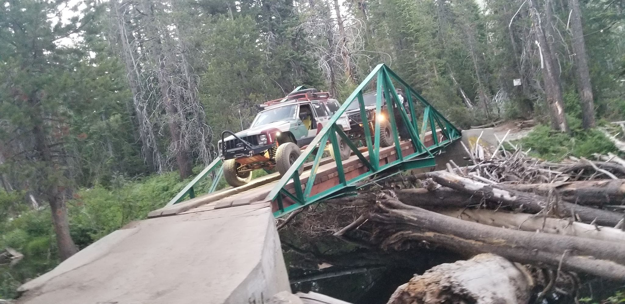 Two Jeep XJ's on the Rubicon bridge on the 4th of July 2018